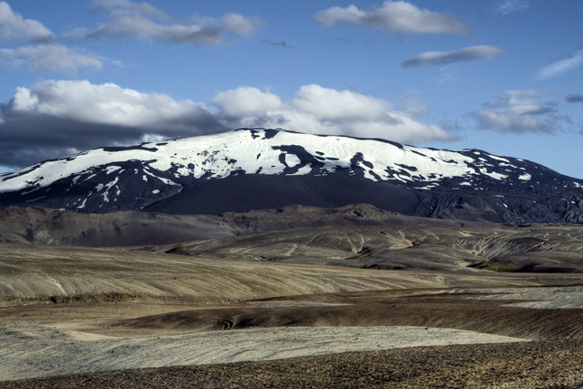 a side view of Hekla - image titled 'Hekla volcano - The spirit of Tröss Nipanki Le Roij has traveled there.' on Flickr